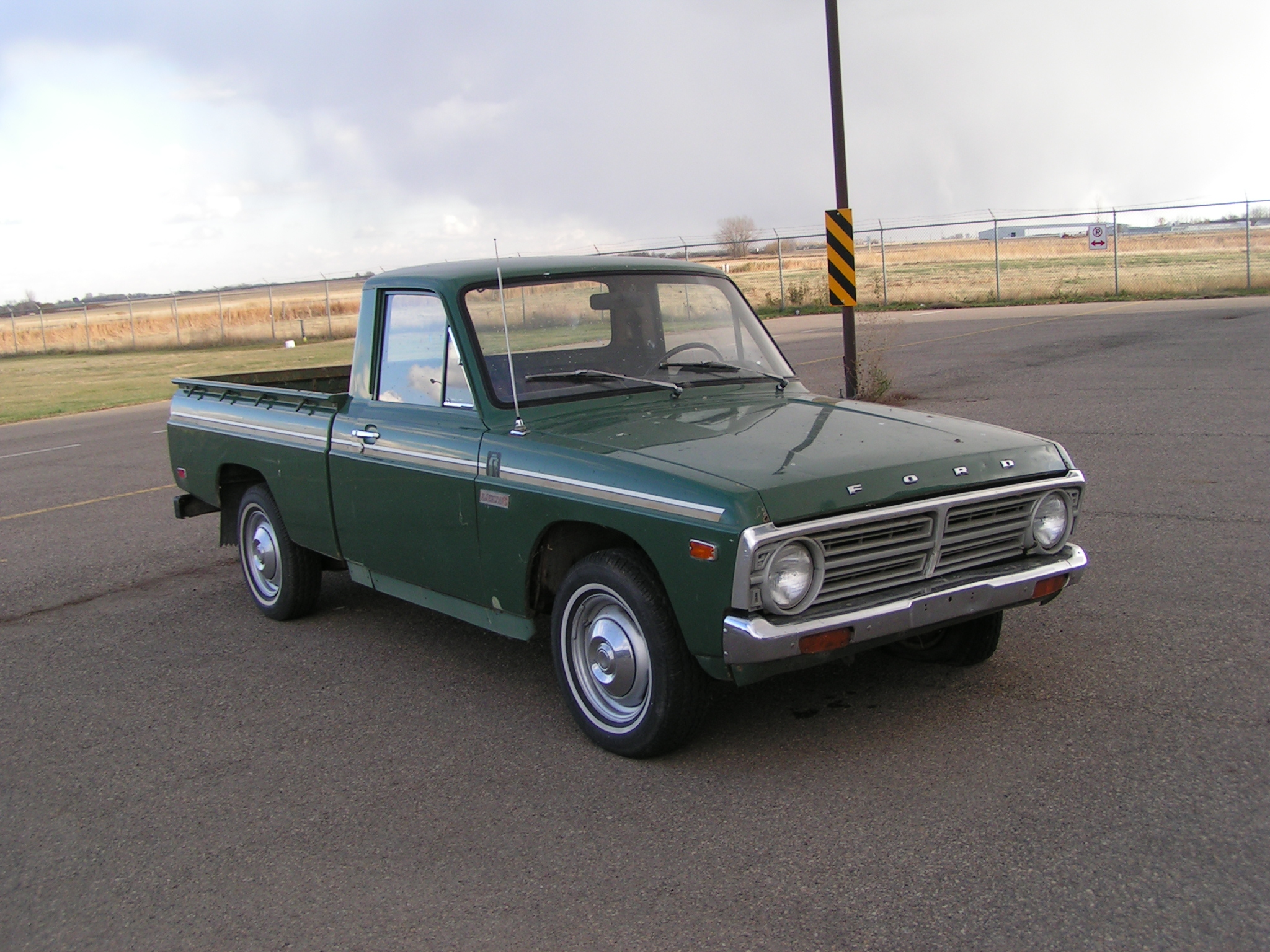 A green 1976 Ford Courier pickup truck.